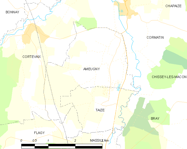 Map of French municipality